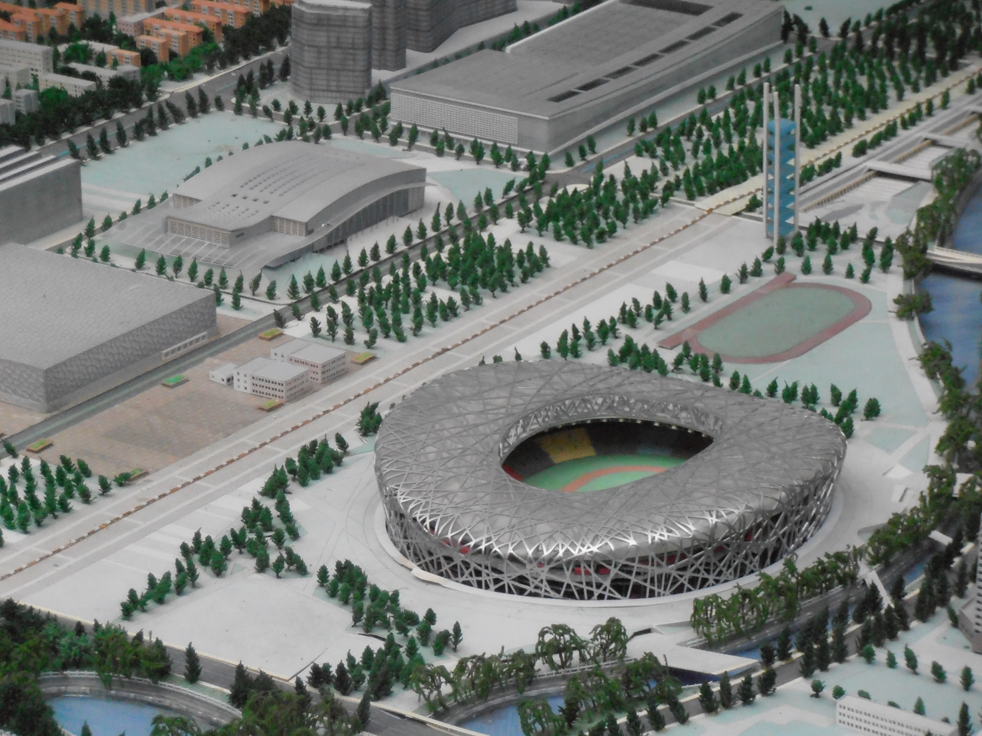 a detail of Beijing Olympic Stadium on the overall model of the city